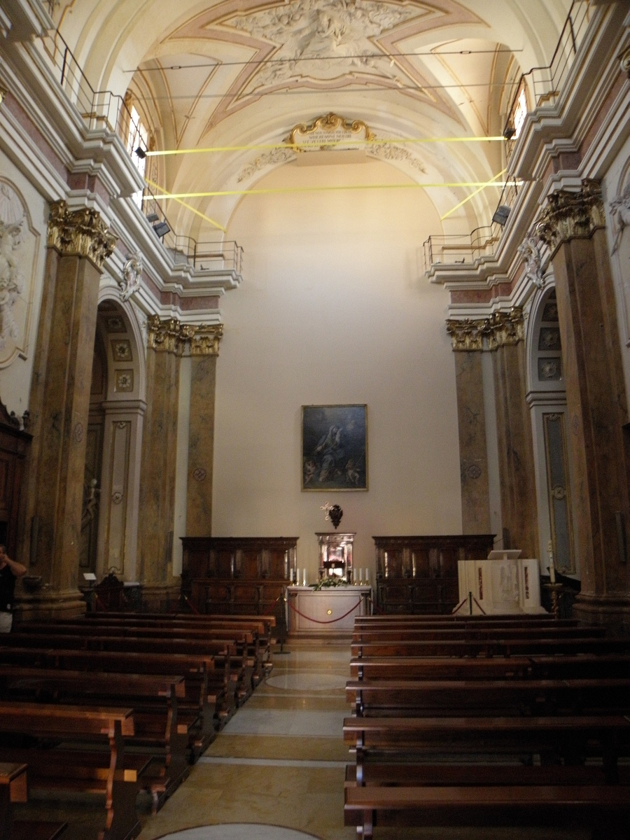 L'Aquila 2010